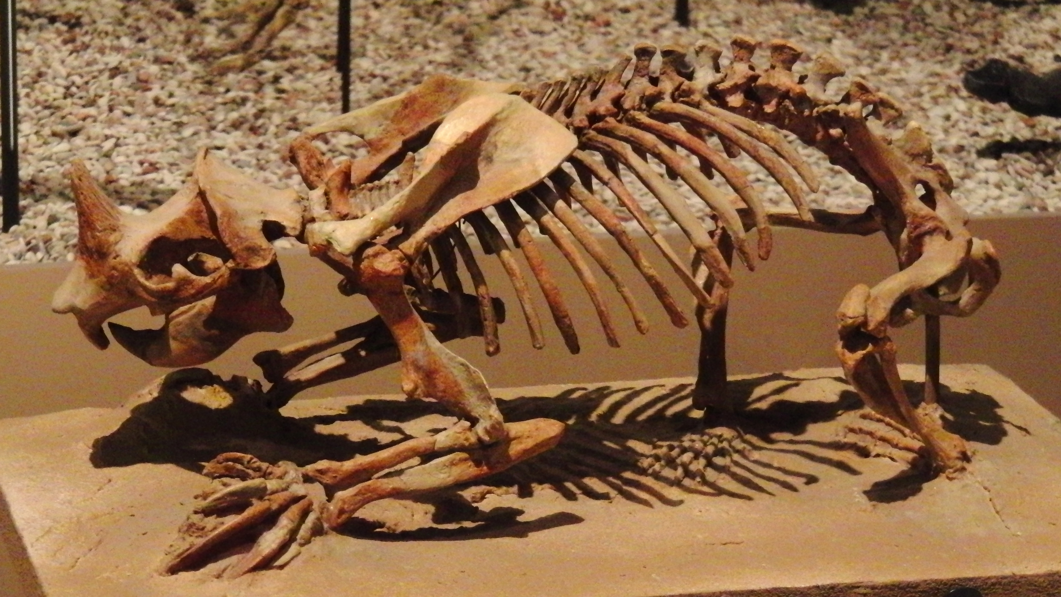 Skeleton of Horned gopher (Epigaulus hatcheri or Ceratogaulus hatcheri). Exhibit in the National Museum of Nature and Science, Tokyo, Japan.